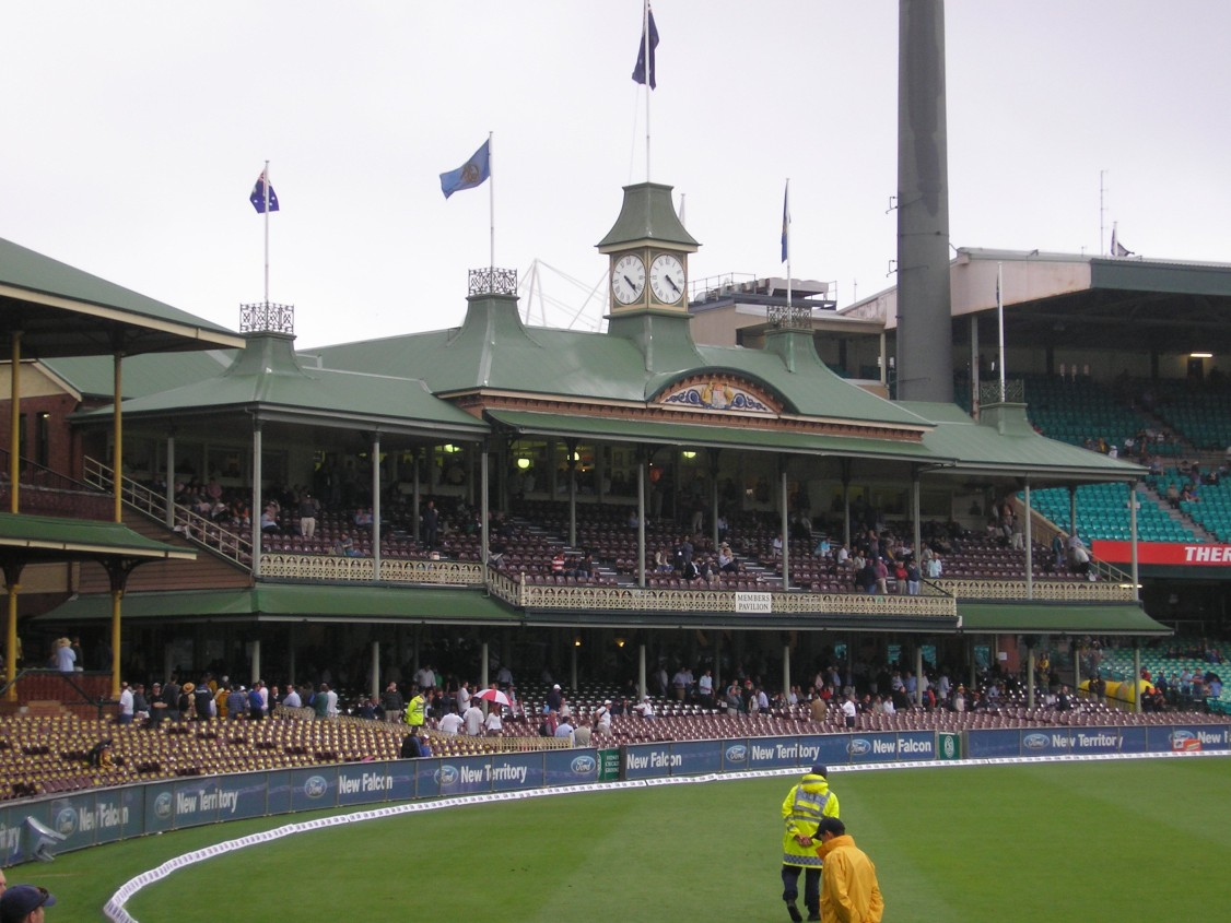 Member's Stand, Sydney Cricket Ground, 5 January 2005